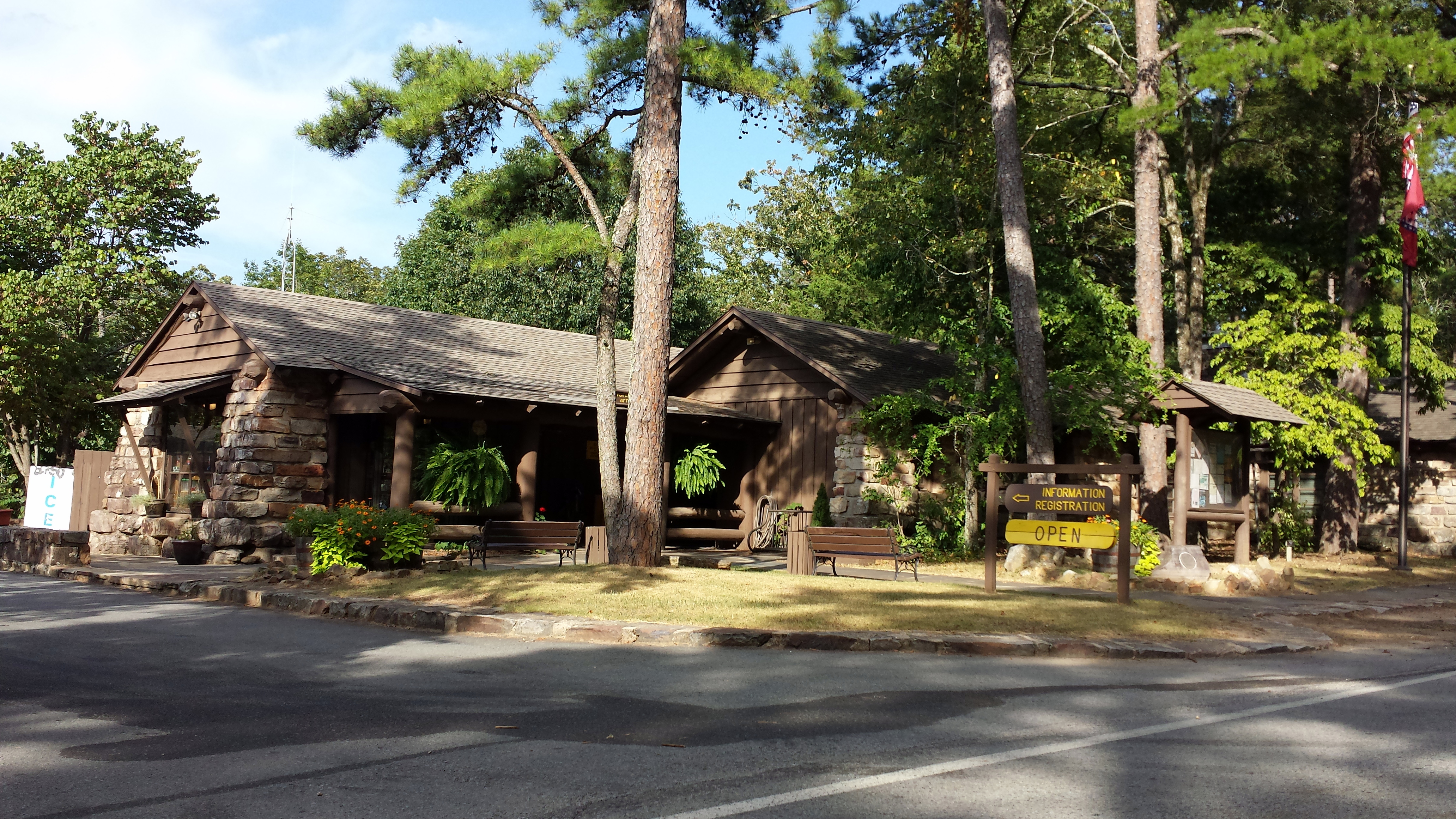 Visitor center at Petit Jean State Park — in Conway County, Arkansas. 1935 Rustic Style building by the CCC−Civilian Conservation Corps.